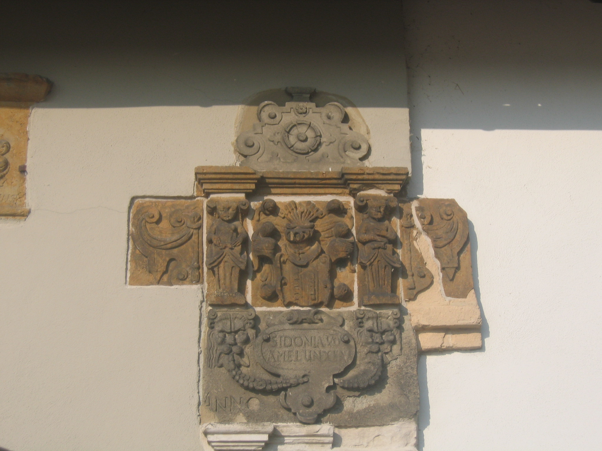 Bruchmühlen Castle in Melle-Bruchmühlen, District of Osnabrück, Lower Saxony, Germany.